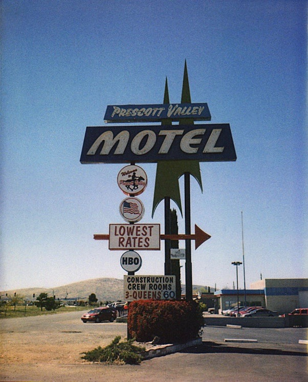 Historic Prescott Valley Motel. Construction Crew Rooms 3-Queens $60, Highway 69, Prescott Valley, Arizona.(View ~due-west) Glassford Hill, (6178 ft, Prescott, 5200 ft), (at northeast of Prescott, Arizona). Glassford Hill, about 3.5 west of Prescott Valley.